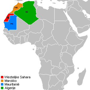 Locator map for the Western Sahara, Morocco, Mauritania and Algeria.